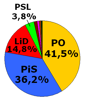 Kleosin - a village near Białystok, Poland - Polish parliamentary election, 2007 results in Kleosin